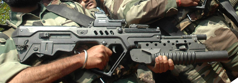 Indian Army Elite 9 Para Commandos, holding Tavor GTAR-21 with M203P grenade launcher.